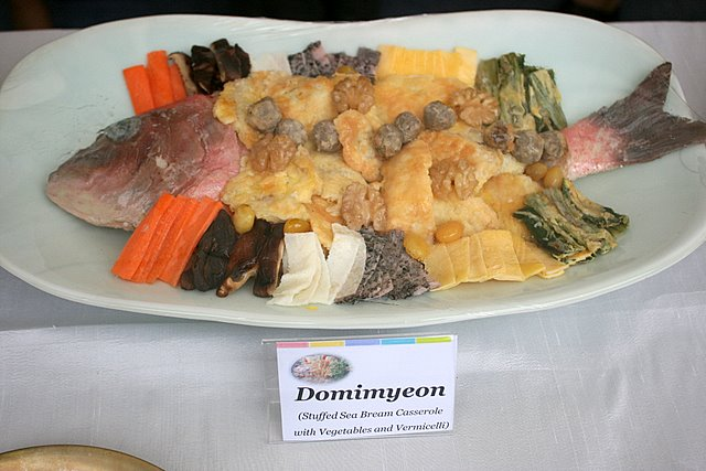 Domimyeon - stuffed sea bream casserole with vegetables and vermicelli in Korean cuisine